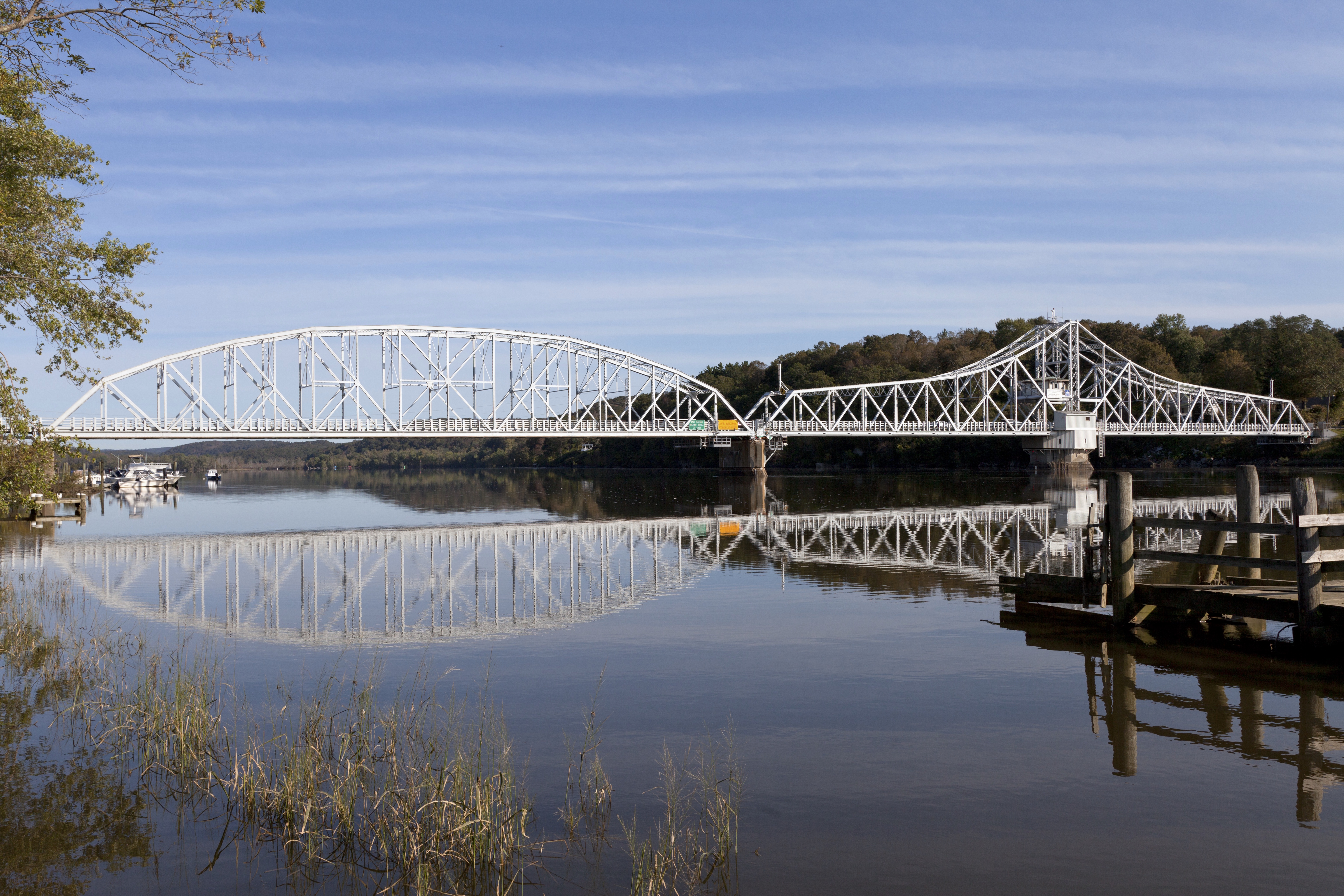 Title: East Haddam Bridge over the Connecticut River, East Haddam, Connecticut Physical description: 1 photograph : digital, tiff file, color. Notes: Title, date, and keywords provided by the photographer.; Credit line: The George F. Landegger Collection of Connecticut Photographs in the Carol M. Highsmith's America, Library of Congress, Prints and Photographs Division.; Forms part of: George F. Landegger Collection of Connecticut Photographs in Carol M. Highsmith's America Project in the Carol M. Highsmith Archive.; Gift; George F. Landegger; 2011; (DLC/PP-2011:166).